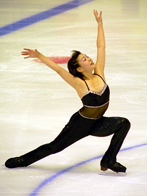 Nana Takeda during her exhibition at the 2005 Junior Grand Prix event in Croatia